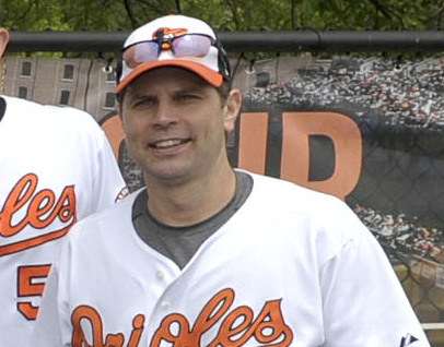 Back row, from left, Baltimore Orioles pitchers Zach Britton and Darren O'Day and former Orioles pitcher Rick Krivda stand with Fort Meade youth baseball players during a clinic, Saturday, May 14, 2016. (Photo by Steve Ruark)